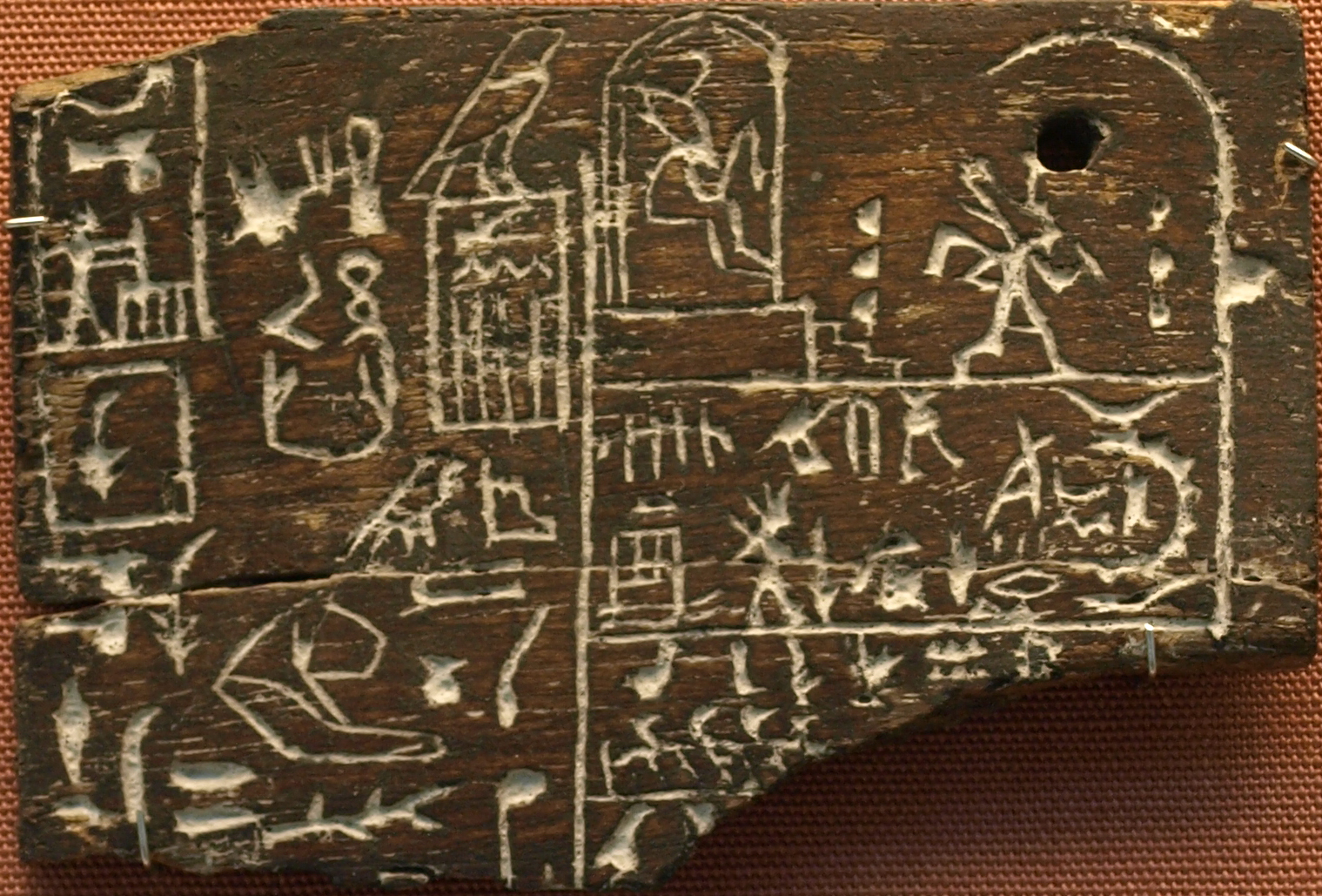 Ebony label depicting the pharaoh Den, found in his tomb in Abydos, circa 3000 BC. Top register depicts the king running in his Heb Sed festival as well as seated on a throne. Lower register depicts the destruction of enemy strongholds and the taking of captives. EA 32650.Hieroglyphs: The Sed festival area is "framed" on the right with a large Renpet hieroglyph.